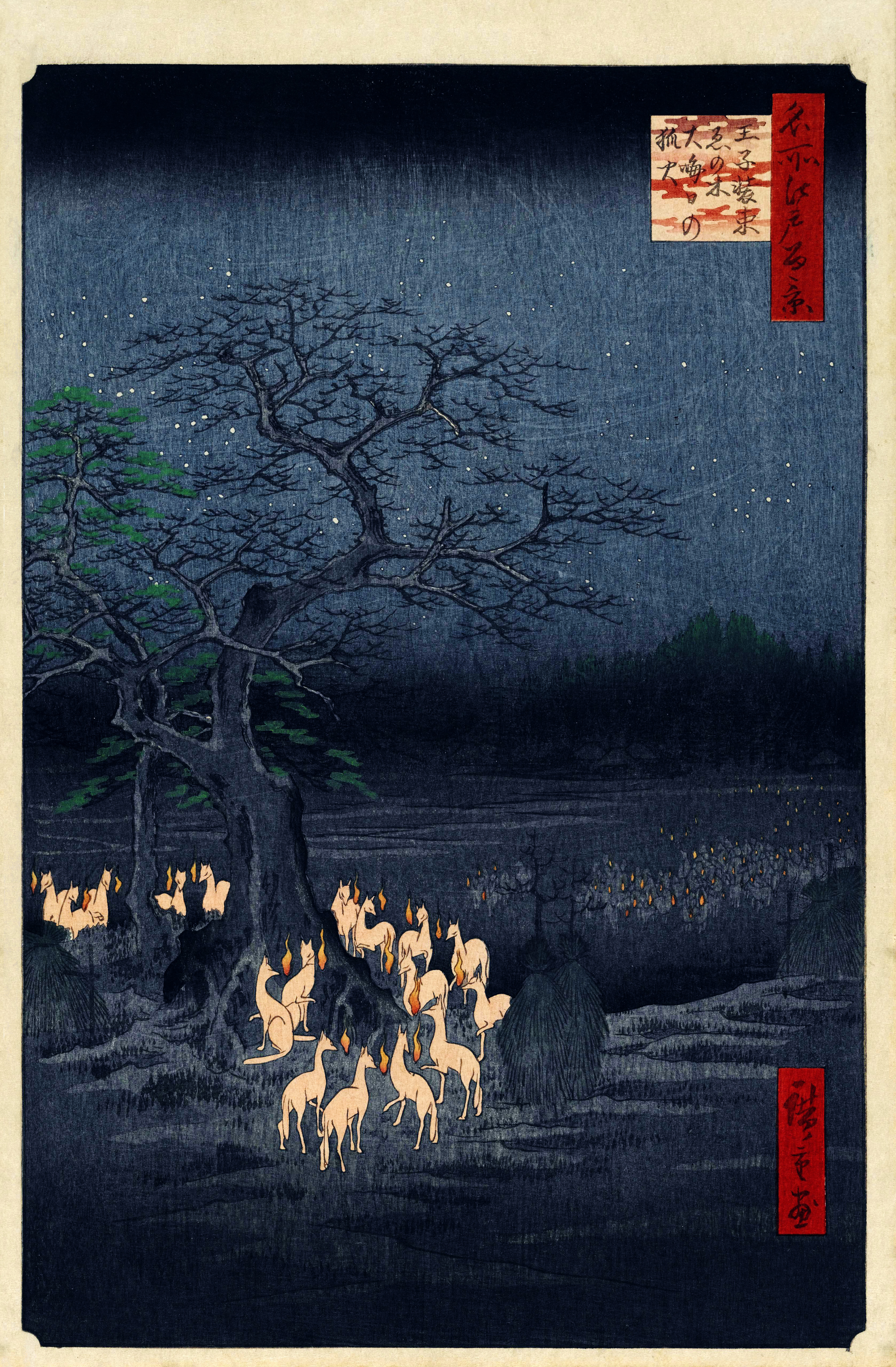 Part of the series One Hundred Famous Views of Edo, no. 118, part 4: Winter.